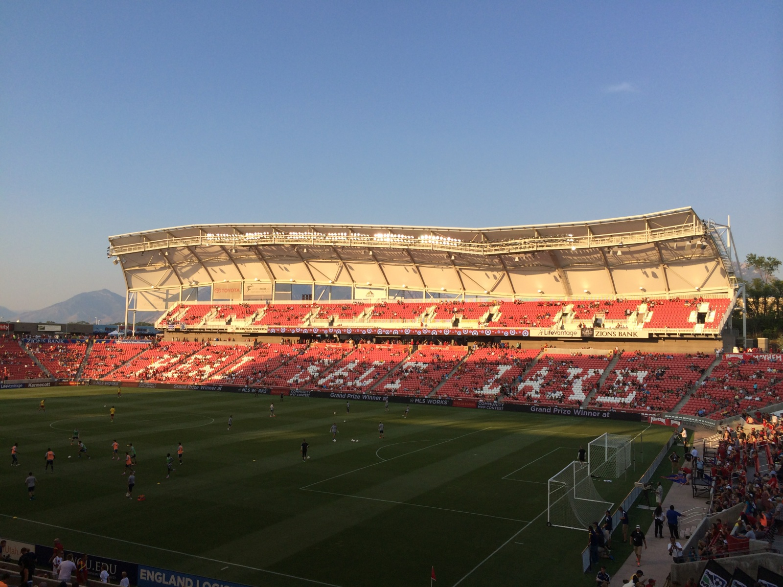 Rio Tinto Stadium during pre-match warmups on July 19th as Real Salt Lake host the visiting Vancouver Whitecaps